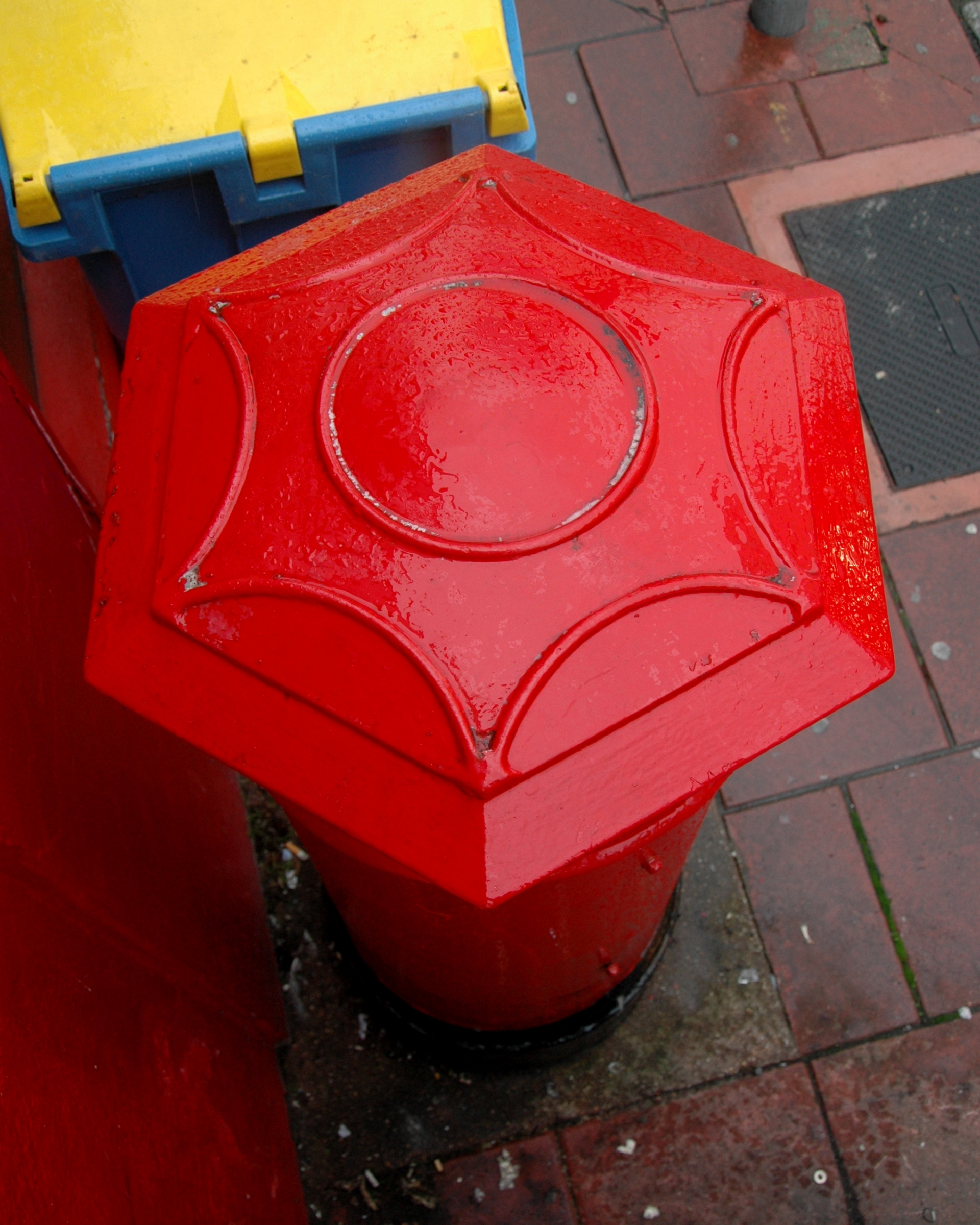 Top of "First National Standard" pillar box in Montpelier Road, Brighton, Sussex